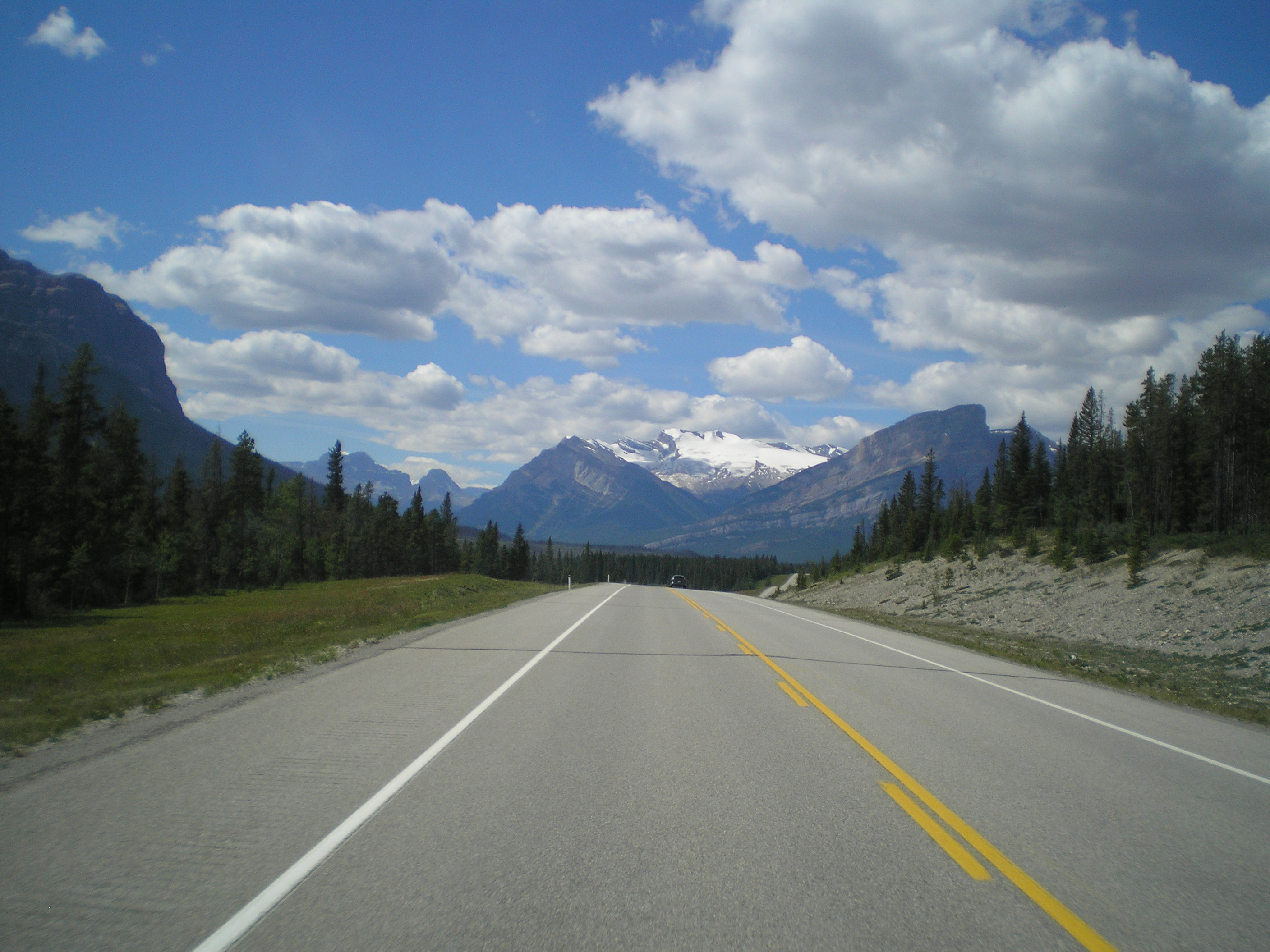 Icefields Parkway, Alberta, Canada.